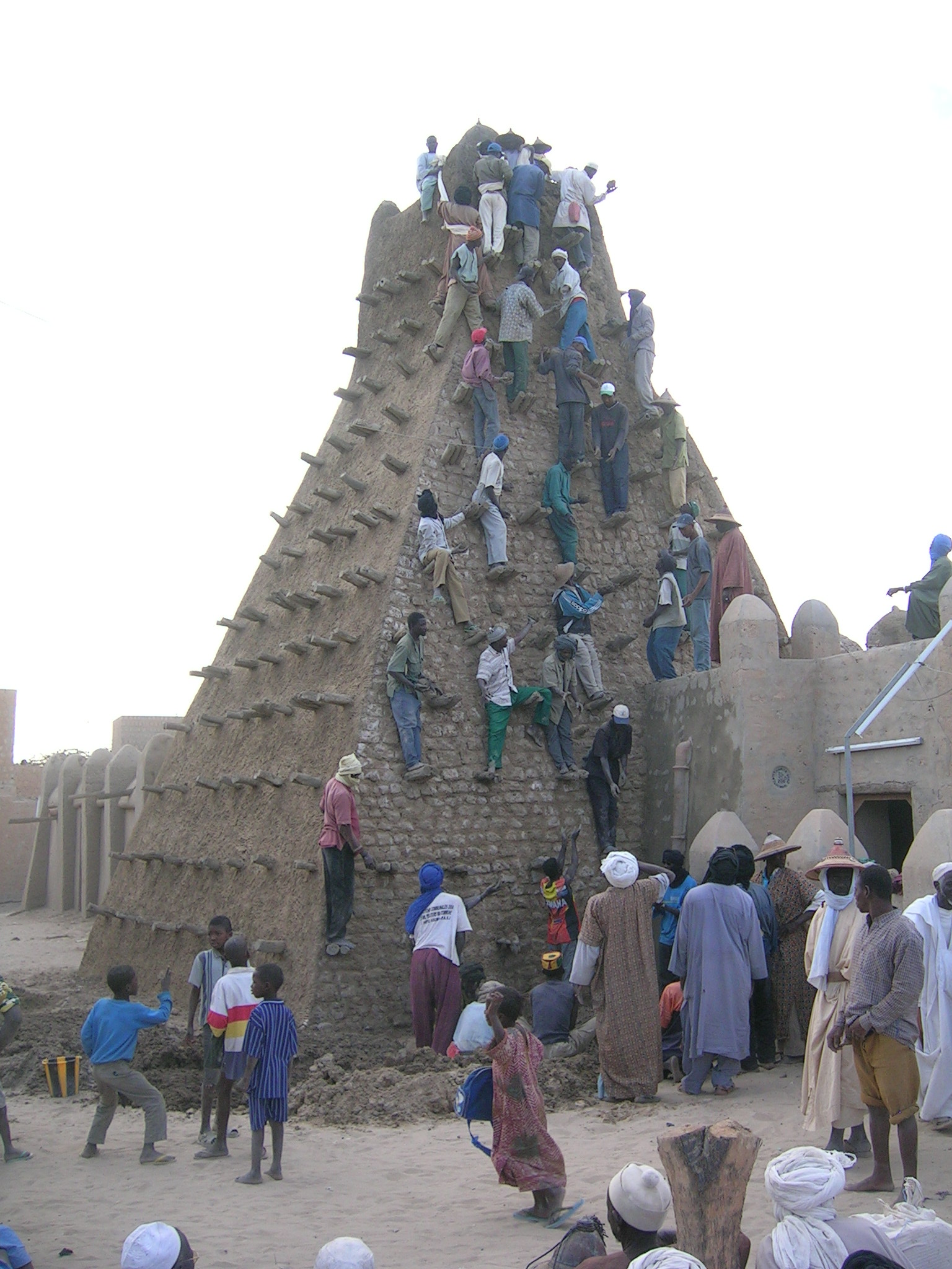 Timbuktu (Mali)